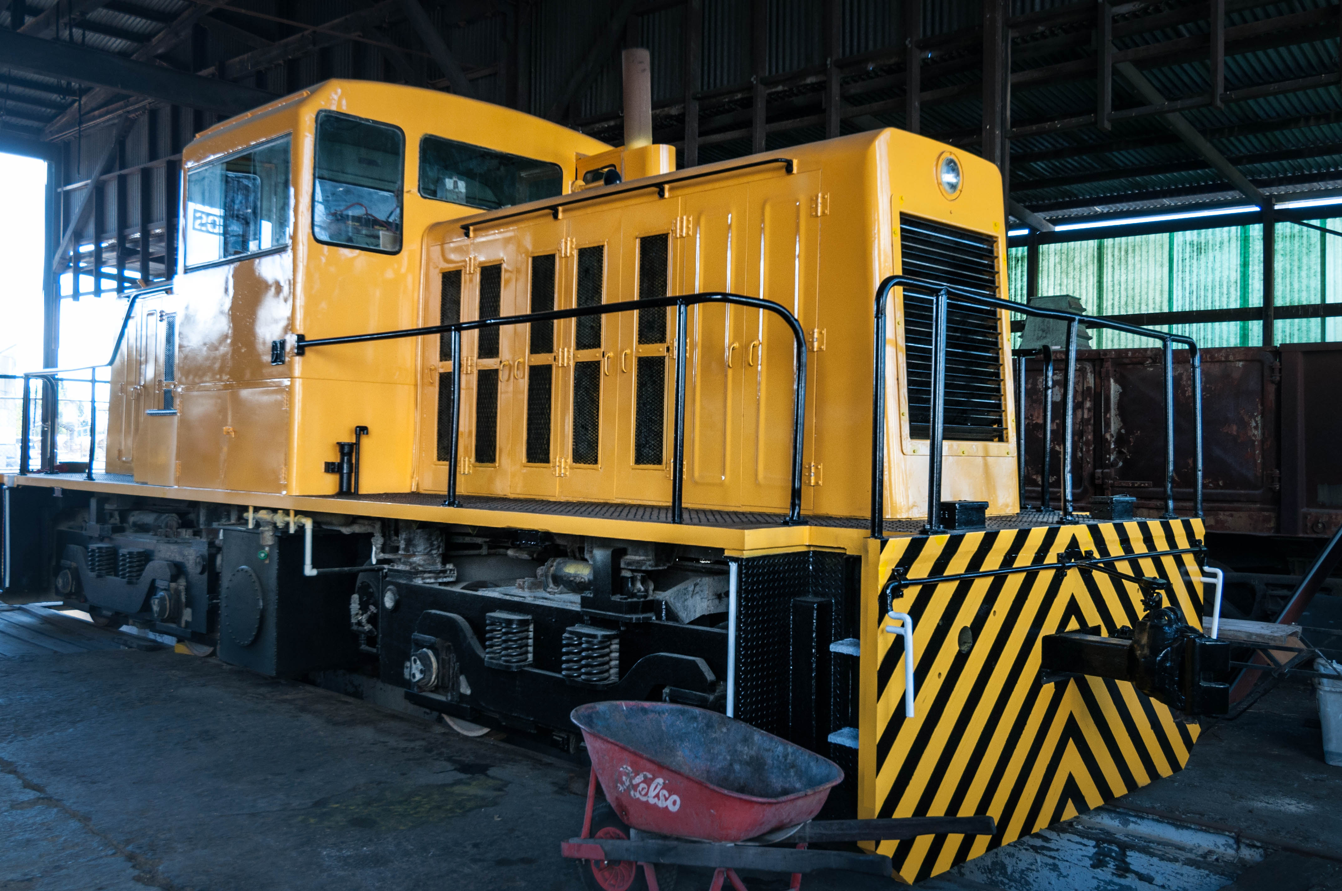 Goulburn Roundhouse Museum General Electric Bo-Bo L80T diesel locomotive D1